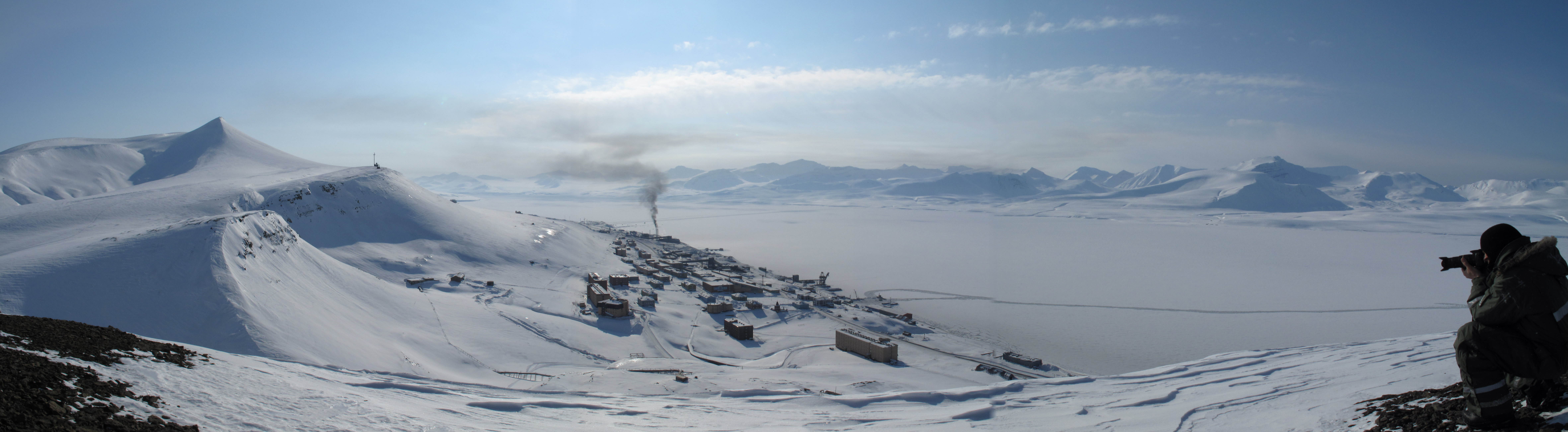 Barentsburg from above